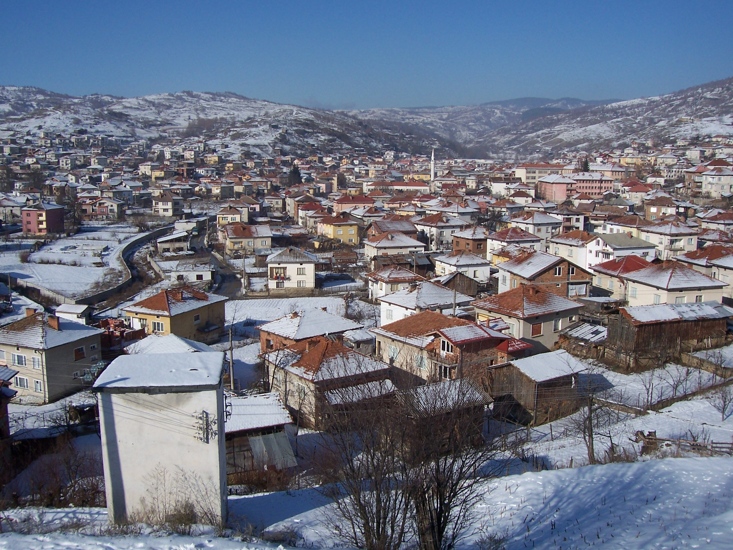 The central part of the village of Kochan.